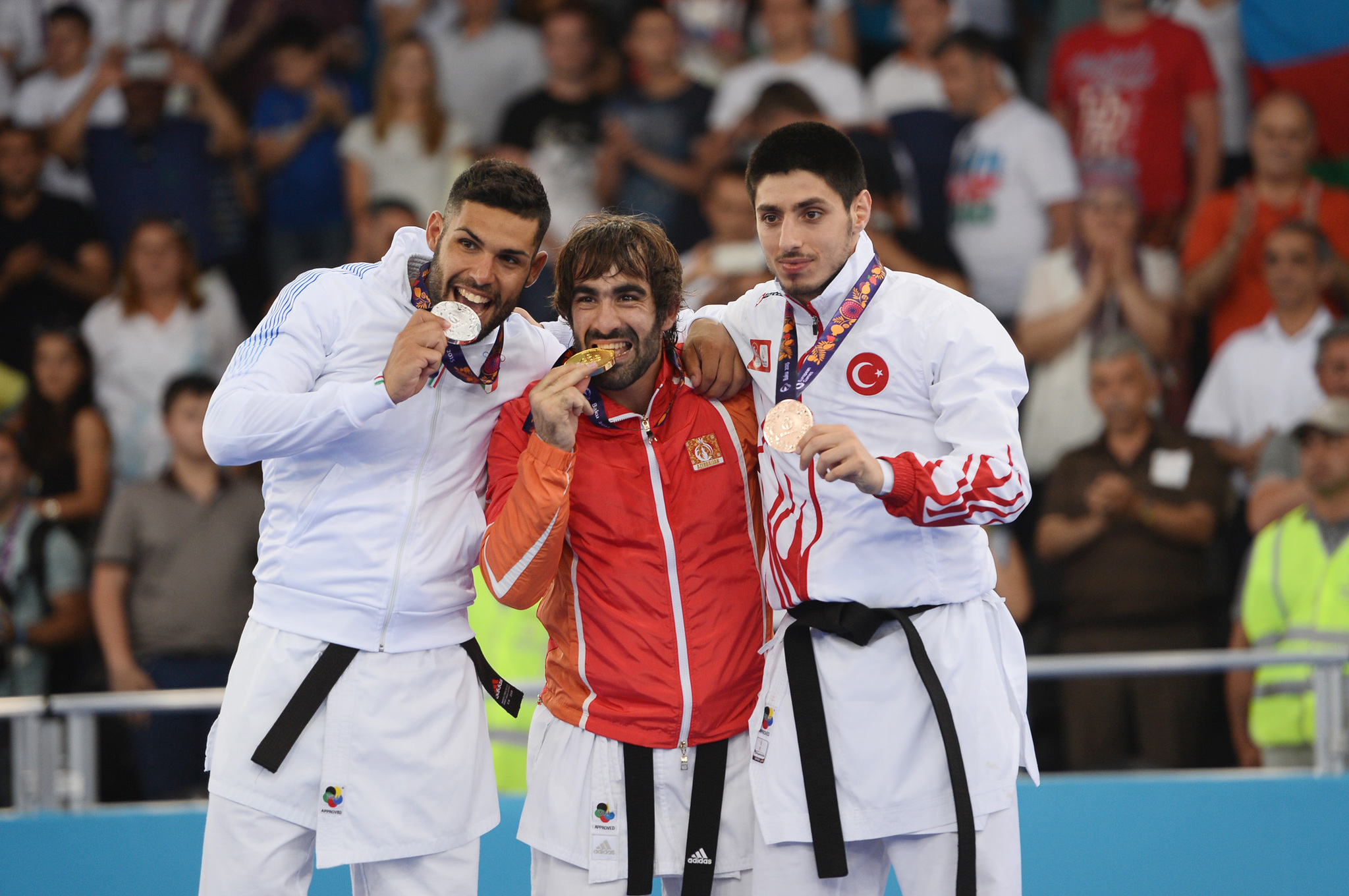 Ilham Aliyev presented the gold medal to the champion of the I European Games Firdovsi Farzaliyev